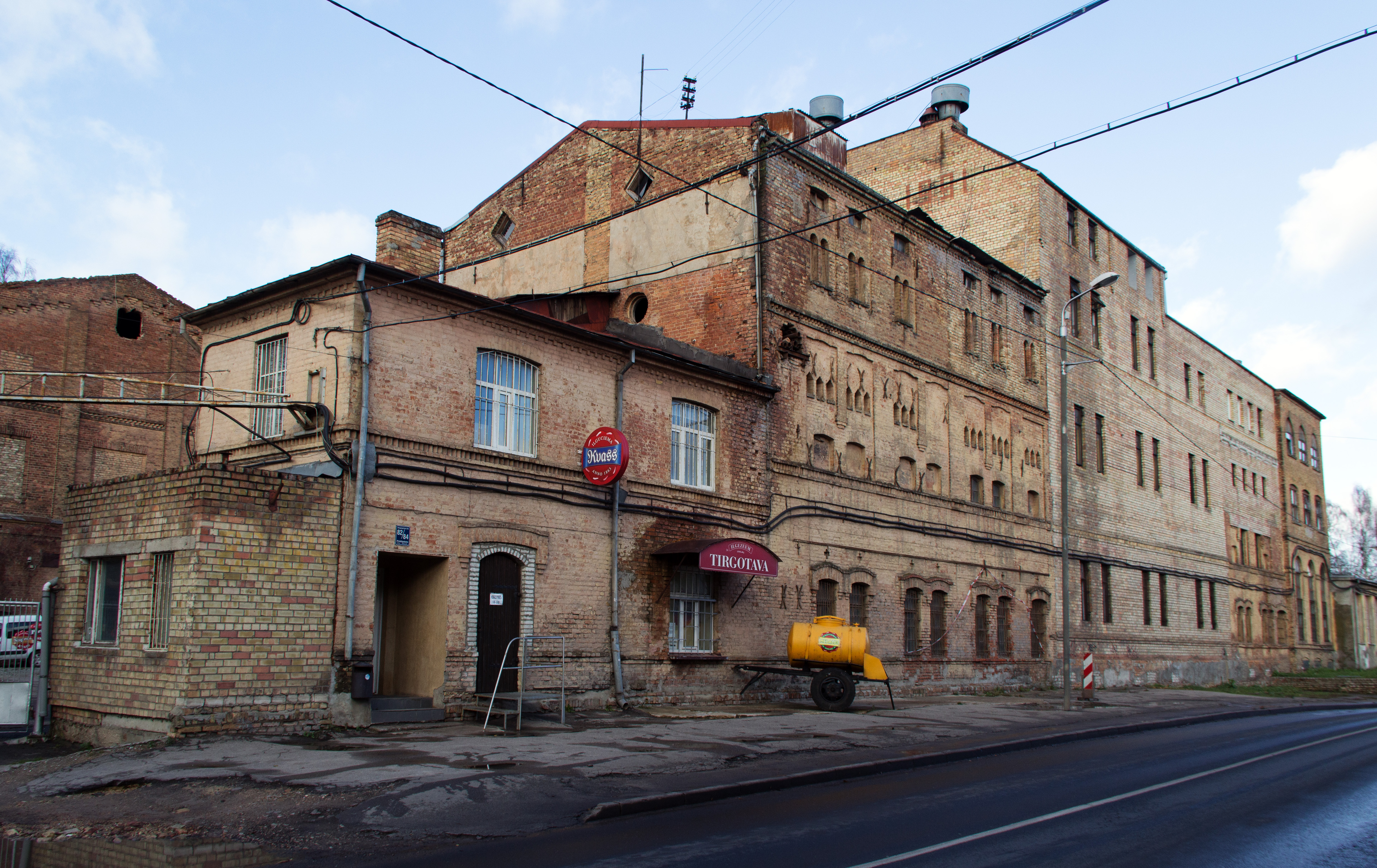 Ilgezeem brewery building, Riga, Latvia